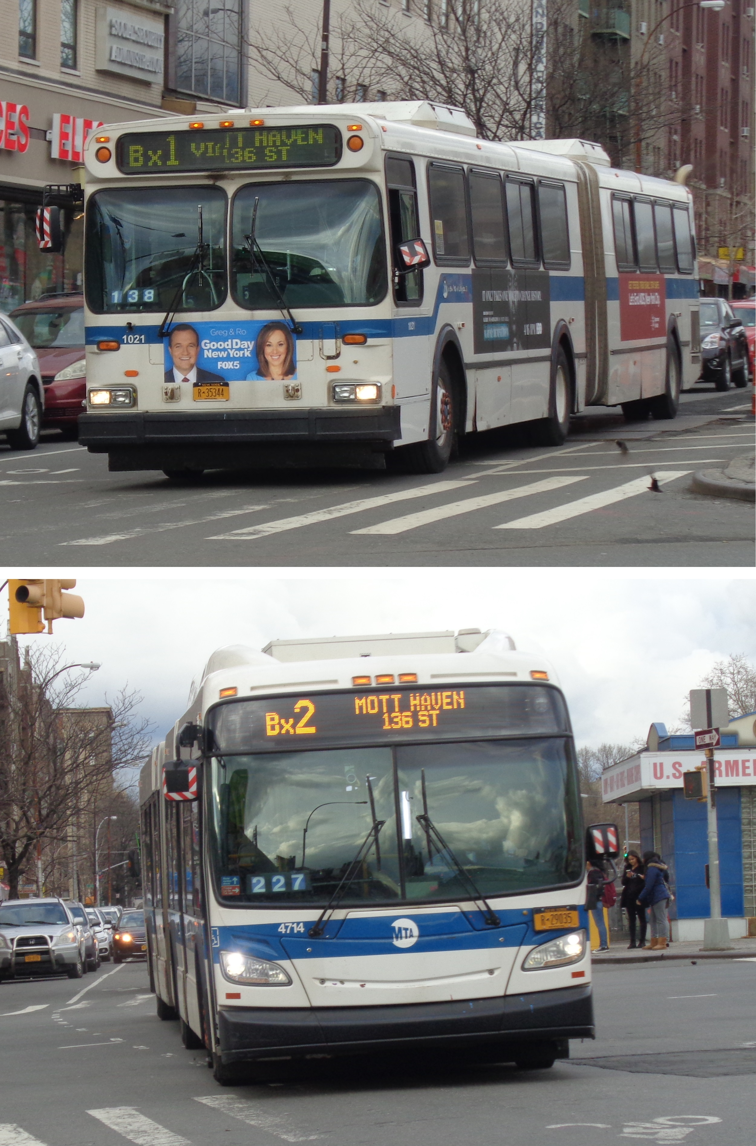 A Mott Haven-bound Bx1 Limited bus (top) and Bx2 local bus (bottom) at Fordham Road and Grand Concourse, at the Fordham Road subway station, in Fordham, Bronx.